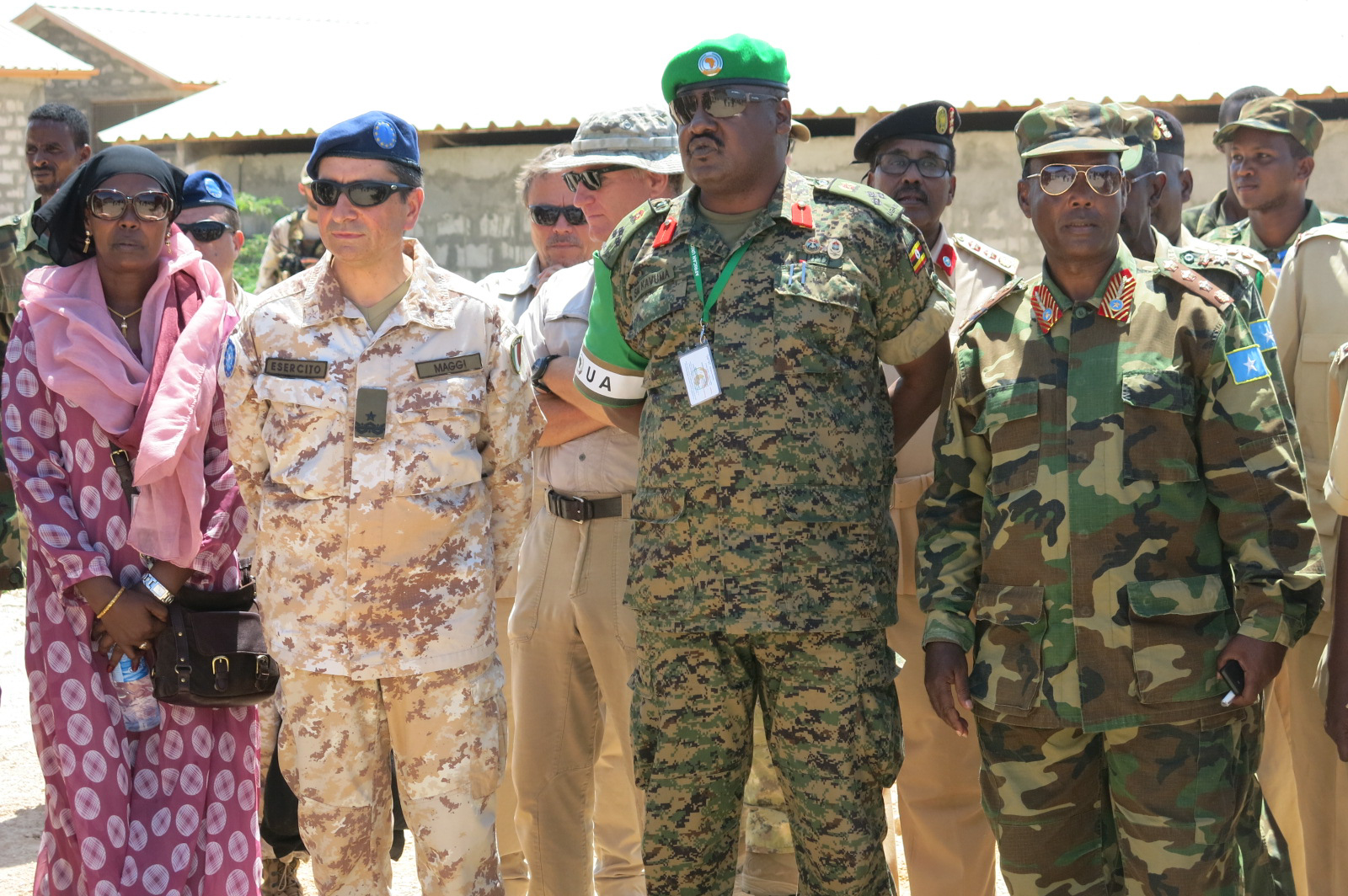 Brigadier General Antonio Maggi, the Commander of the European Union Training Mission in Somali (EUTM) (left); Brigadier Sam Kavuma (middle) the Acting Force Commander and Commander of the Ugandan AMISOM contingent and General Abdikadir Moalim Bacbacle (right), the SNA Commander for Logistics. The officials were at Jazeera Training Camp in Mogadishu where Somalia National Army soldiers completed a three months training in military intelligence and Non-Commissioned Officers' course on 25 March 2015. AMISOM Photo / Raymond Baguma